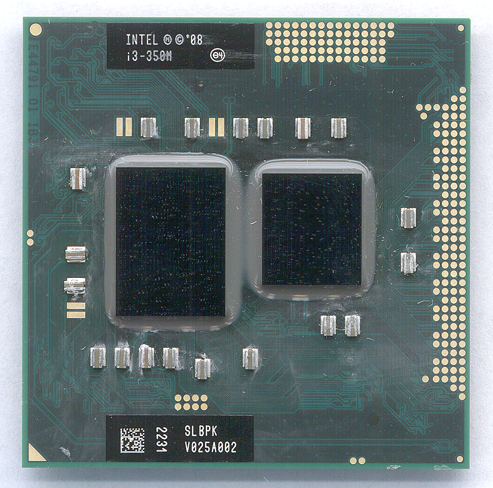 Intel Core i3-350M sSpec SLBPK Microprocessor (Observe)